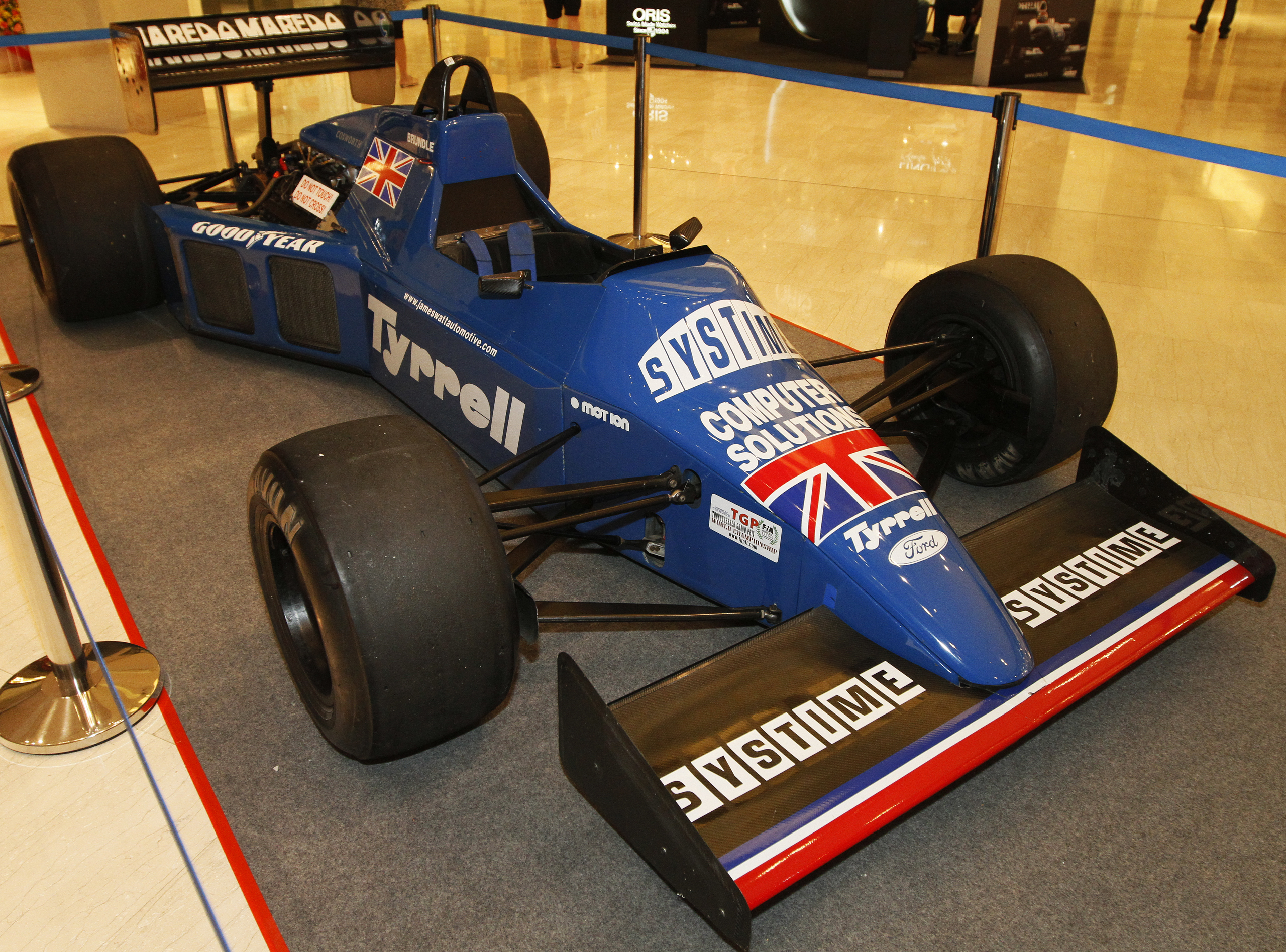 Pavilion Pit Stop 2010: Tyrrell 012/3